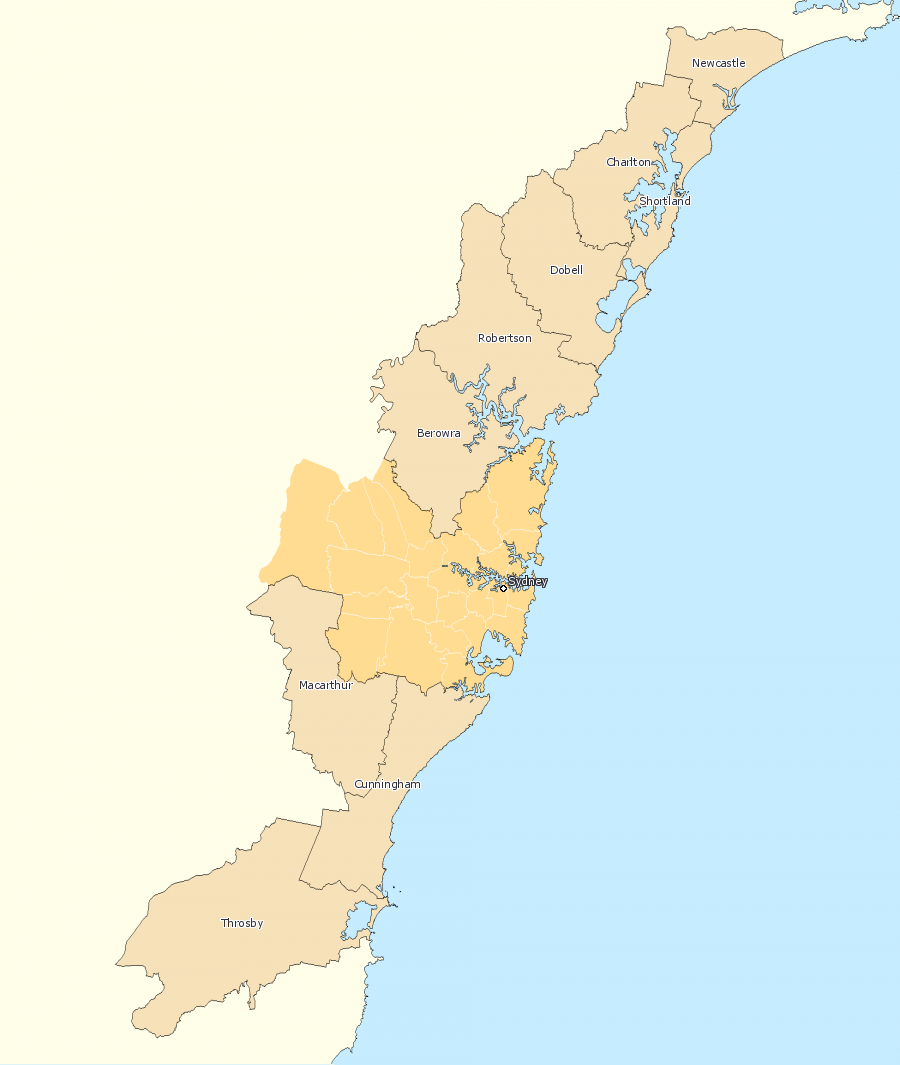 This image incorporates data that is: © Commonwealth of Australia (Australian Electoral Commission) 2009 Outside Sydney divisions overview 2010